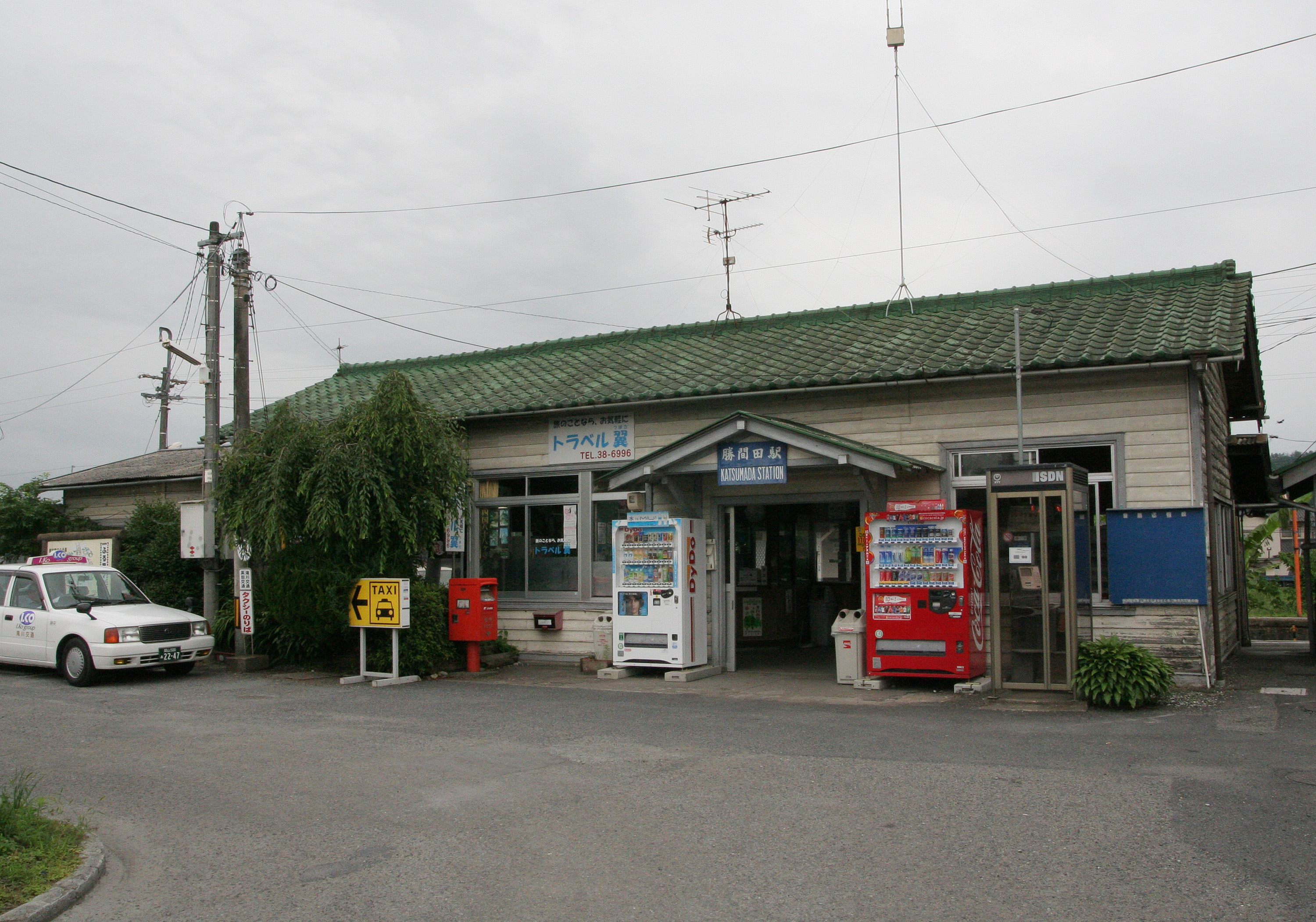 West Japan Railway Company Kishin Line katsumada sta